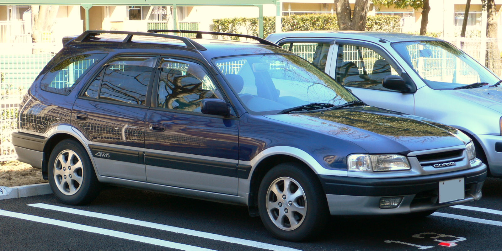 3rd generation Toyota Sprinter Carib (1997/4 - 2002/8)